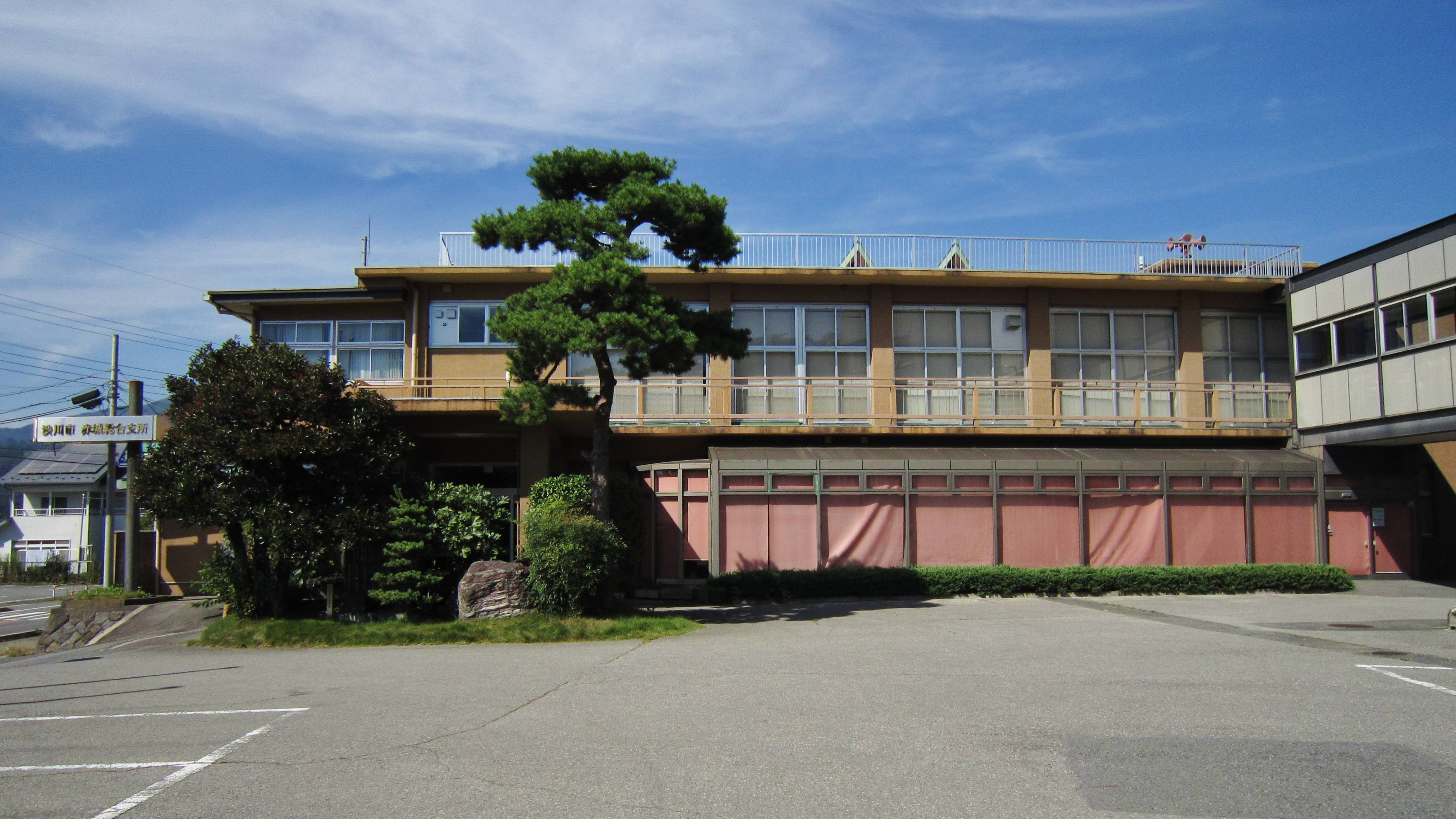 Shibukawa city Akagi branch office.